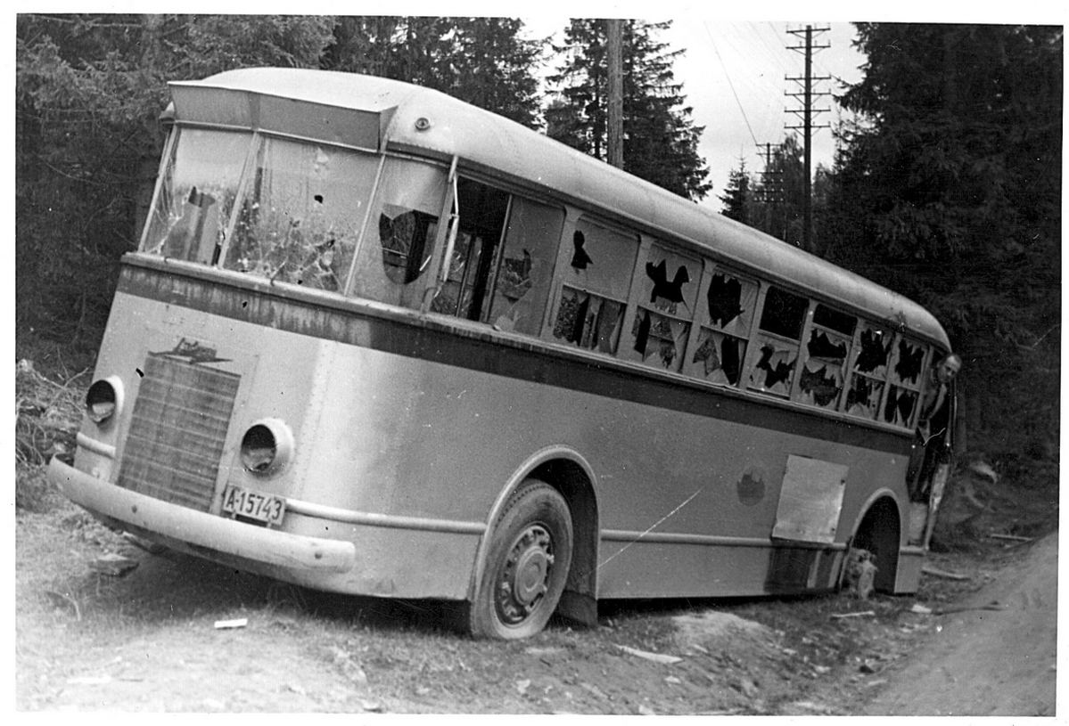 One of the aluminium busses seized from Oslo Sporveier used by German troops for the raid towards Midtskogen. Here abandoned at Nittedal some days after the raid, after a clash between Norwegian and German troops left it destroyed.